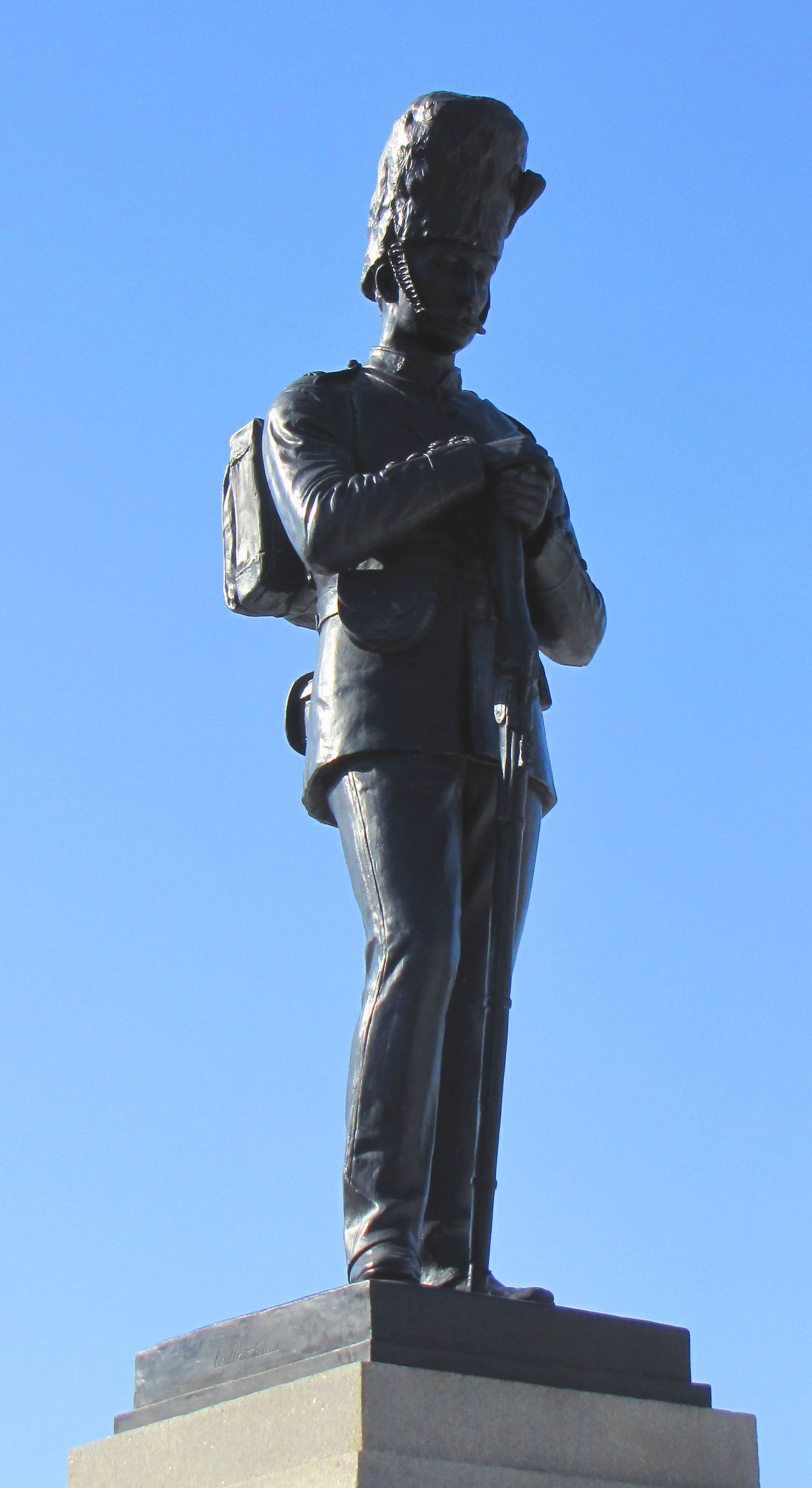 Statue to Wm. B. Osgoode and John Rogers who fell in action at Cutknife Hill, 2 May 1885, located in Cartier Square, Ottawa, Ontario, Canada